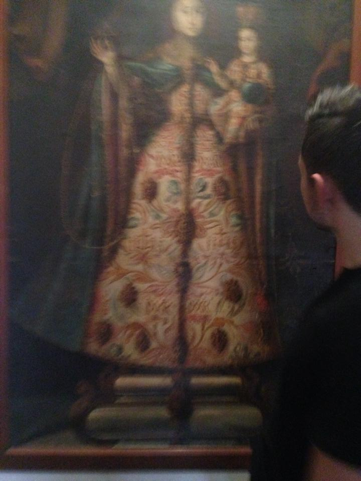 Cuadro encontrado en la casa de Isidro Fabela, San Ángel, México